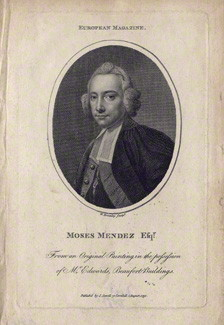 by William Bromley, after Unknown artist, stipple and line engraving, published 1792